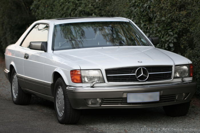 en:1990 Mercedes-Benz '560 SEC ( W126), photographed by User:Dawidl in Johannesburg, South Africa in April, 2006. Category:Mercedes-Benz vehicles